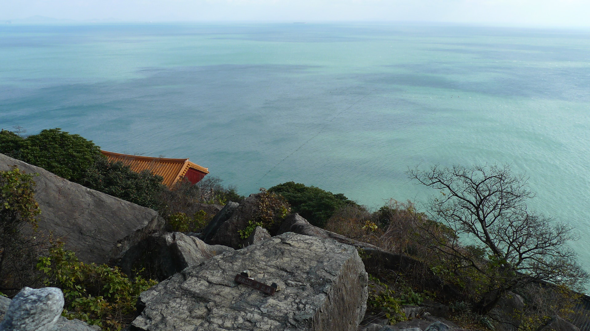 the front view of the Namhae sea through the Temple of Hyangiram at Yeosu